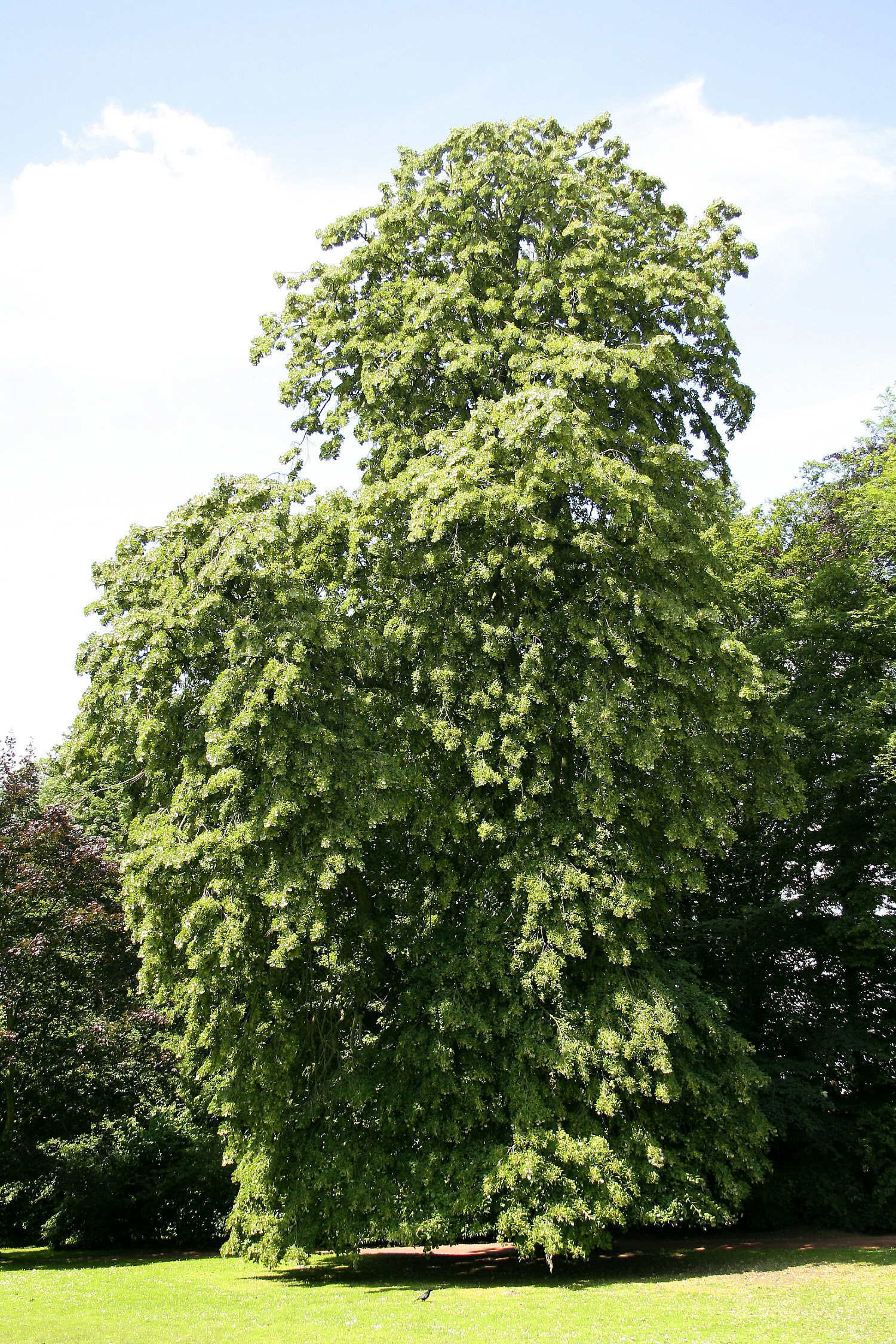 Weeping silver lime or Pendant Silver Linden. Walon: Tiyou di Hongrîye.